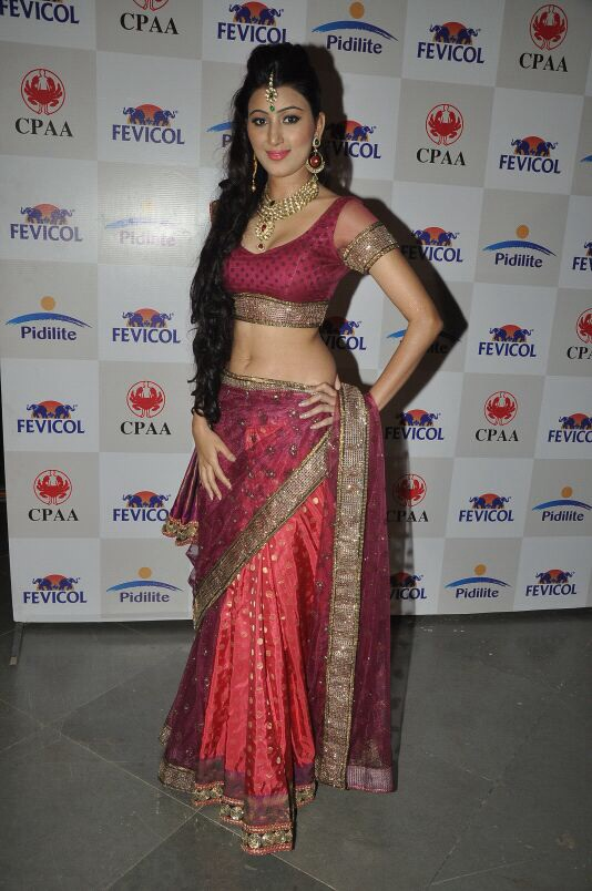 Nikunj Malik at Shiana N C's ramp show to walk for the cause of cancer patients on 9th may 2014